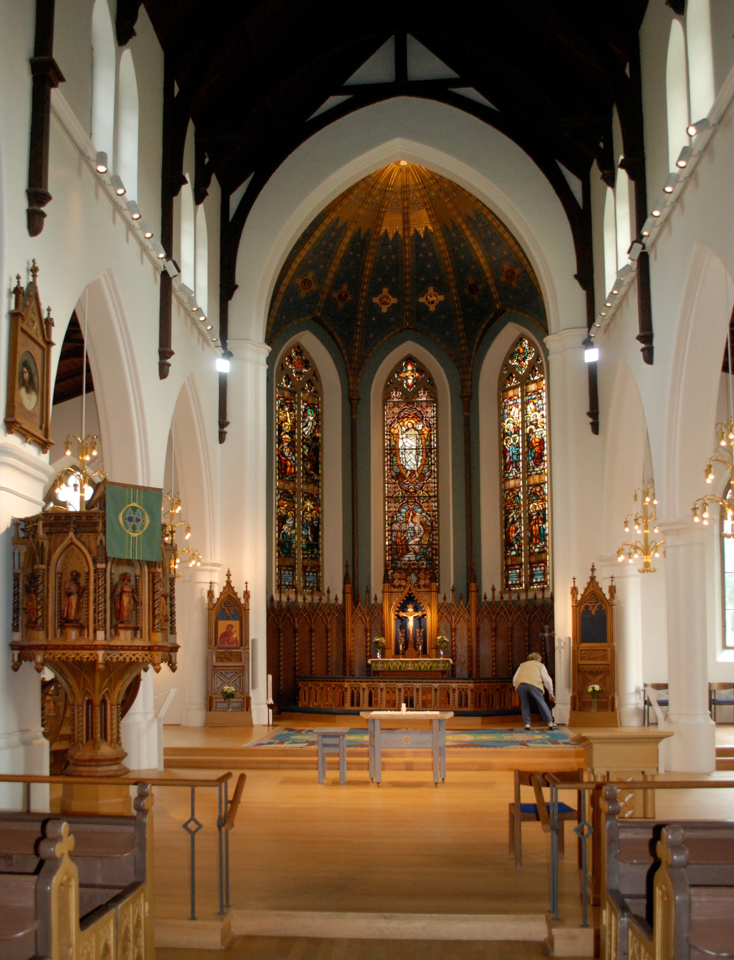 Hagakyrkan